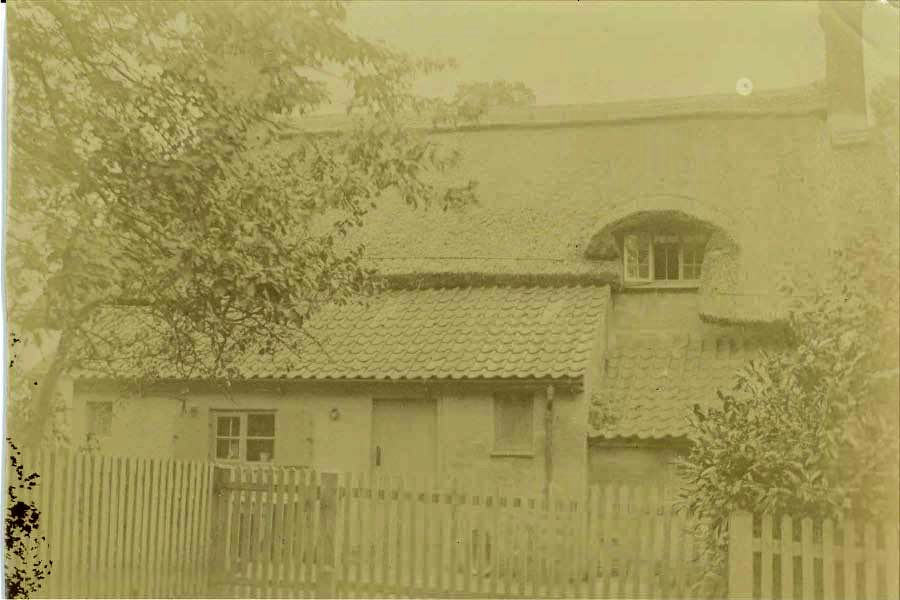 Home of William Wright and family in Barlestone, Leicester County, England. They immigrated to the United States about 1848. Contributed by J.Guy George of Easton, Maryland, GGG Grandson.